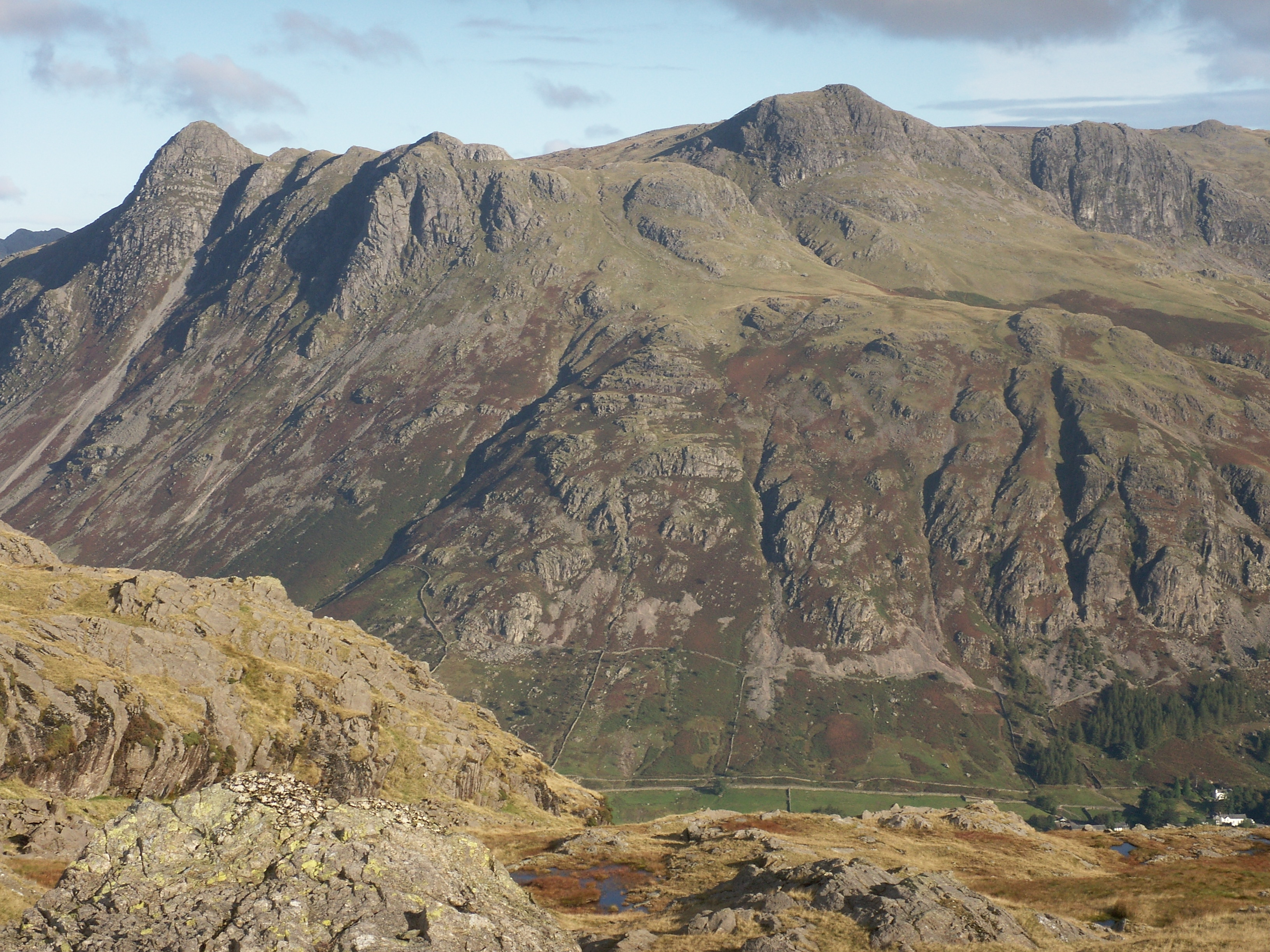 Own photo. Harrison Stickle at the centre of the Langdale Pikes, taken from Pike of Blisco English Lake District GFDL